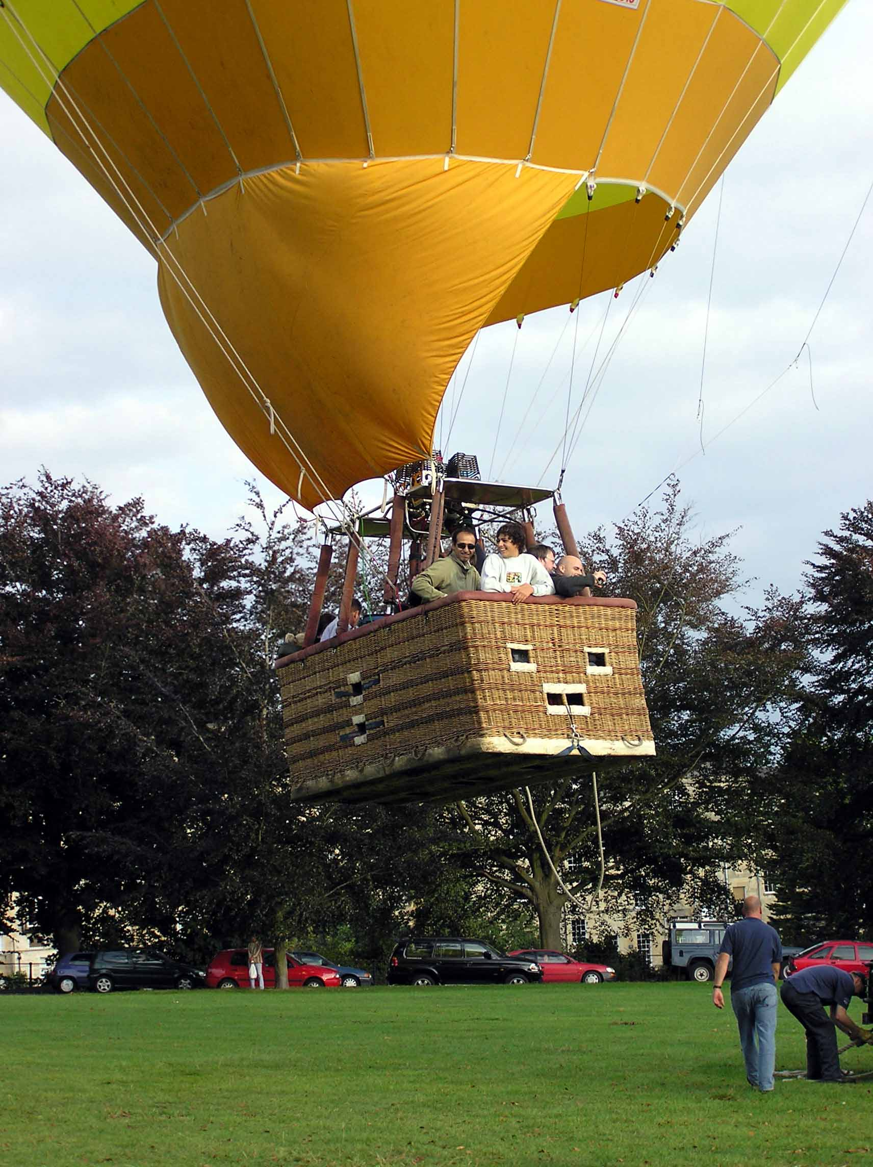 A hot air balloon lifts off in the evening, from Royal Victoria Park, Bath, England. The squarish slots in the basket are to assist climbing in and out. Photographed by Adrian Pingstone on 21st September 2005 and placed in the public domain.